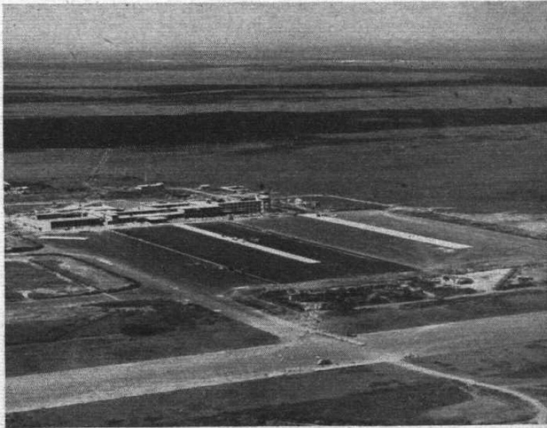 Photo Album images of Embakasi Airport